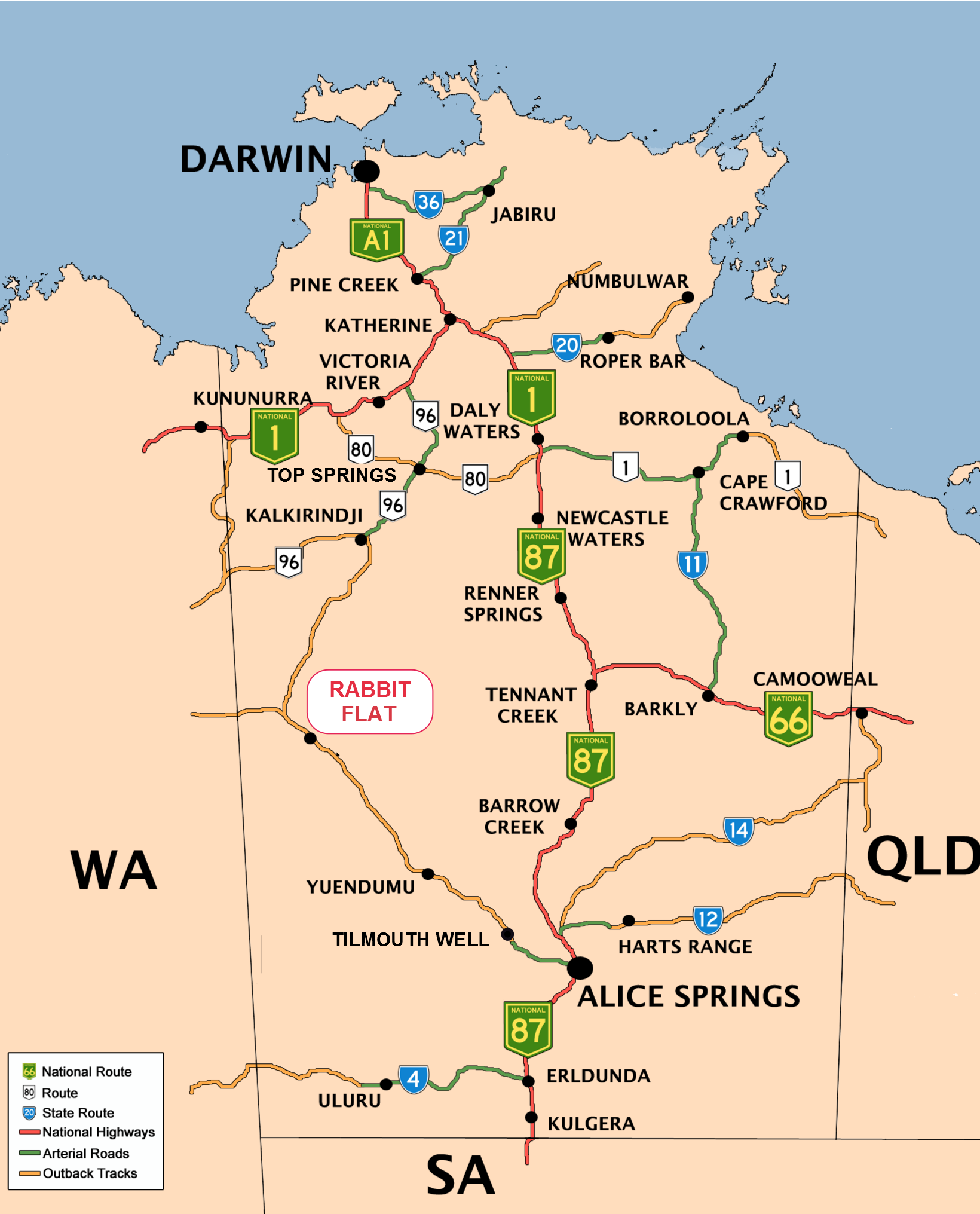 NT Roads showing Rabbit Flat adapted from a map by User:Fikri with addition of Tilmouth Well and correction to spelling of Top Springs.